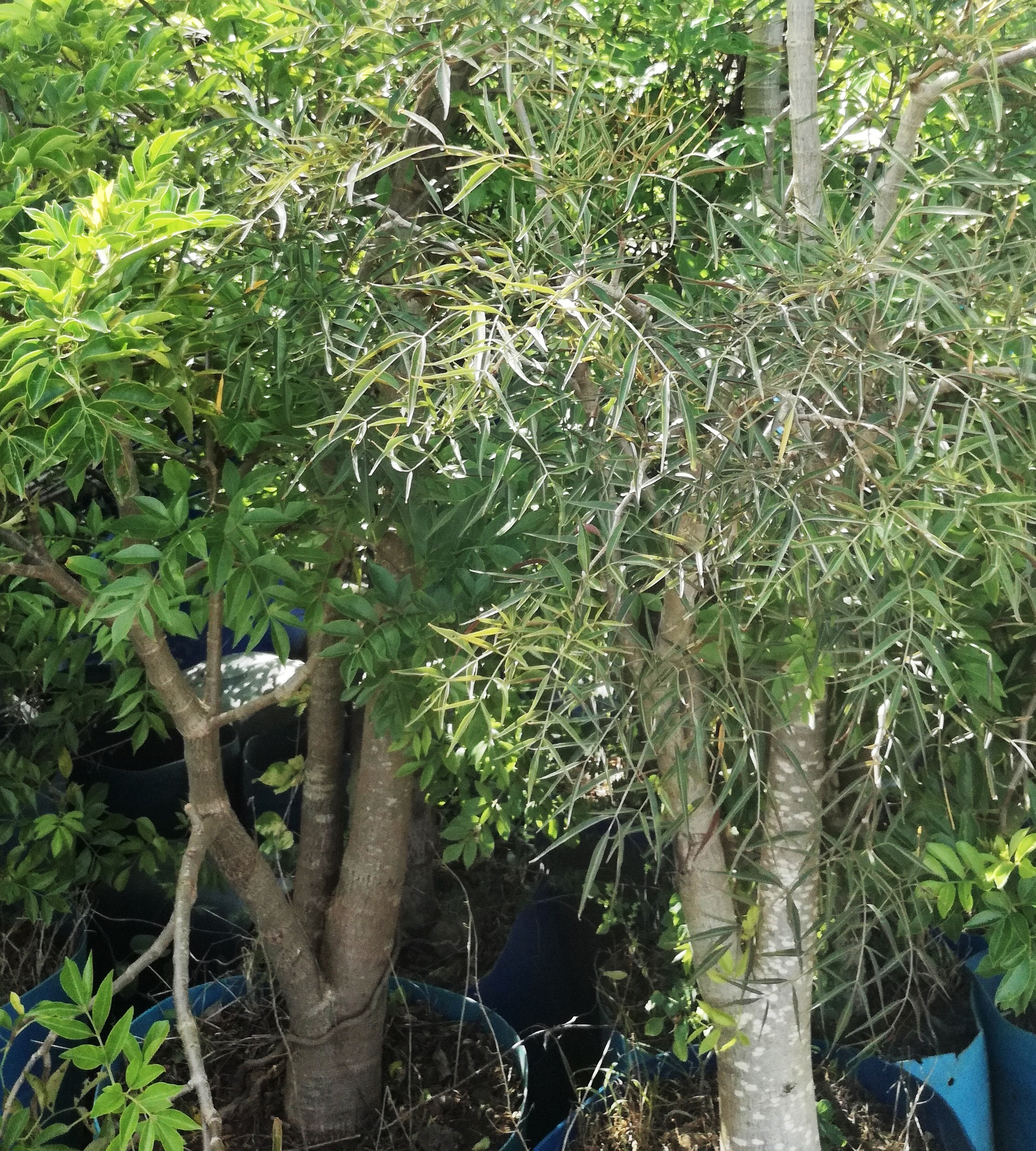 Natural varieties in adult Cyphostemma mappia